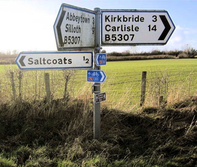 A Sign of the times. Road directions cycle routes and even walking routes and this really is in the countryside